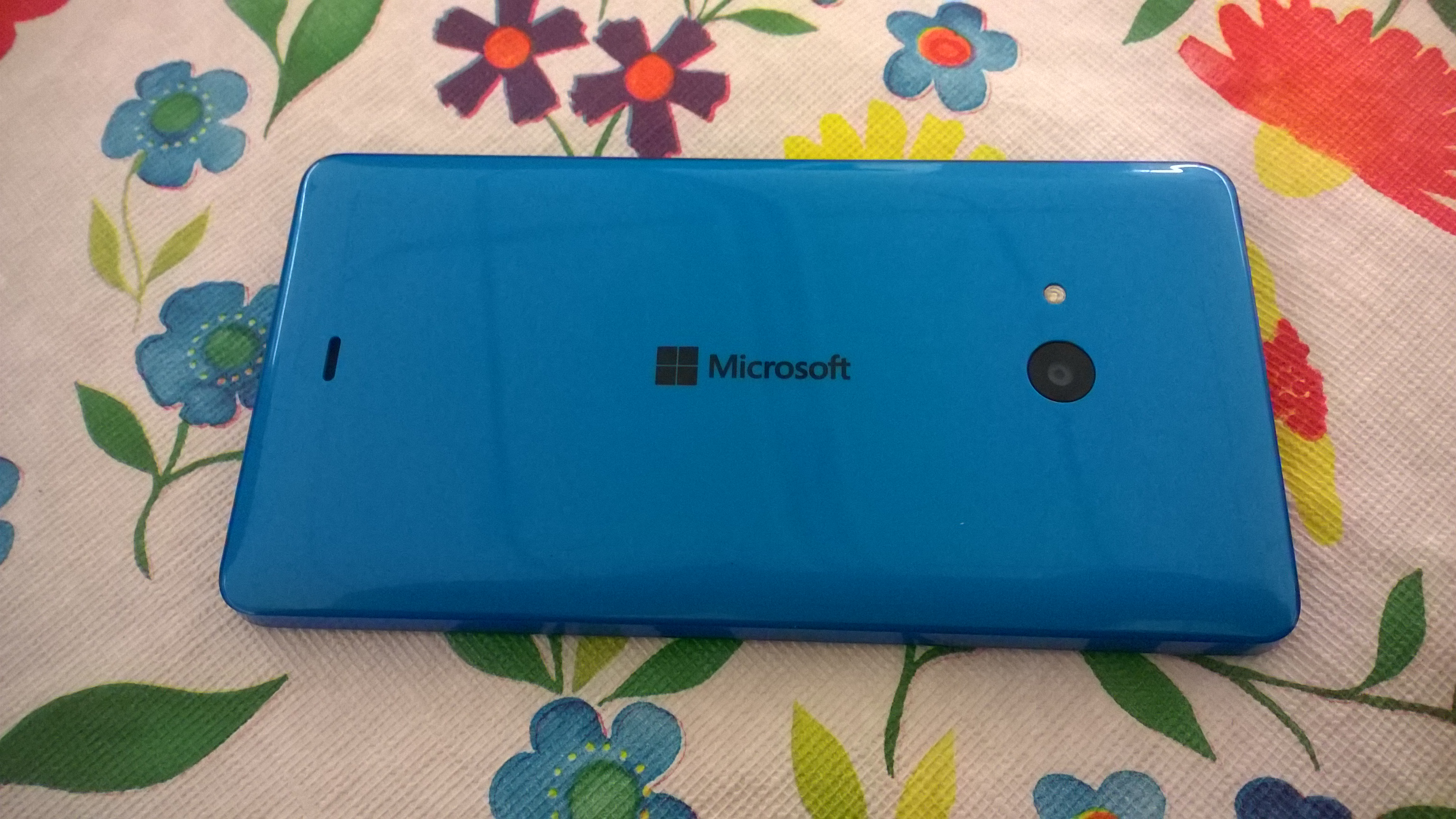 A Microsoft Lumia 540 Dual SIM in blue colour.